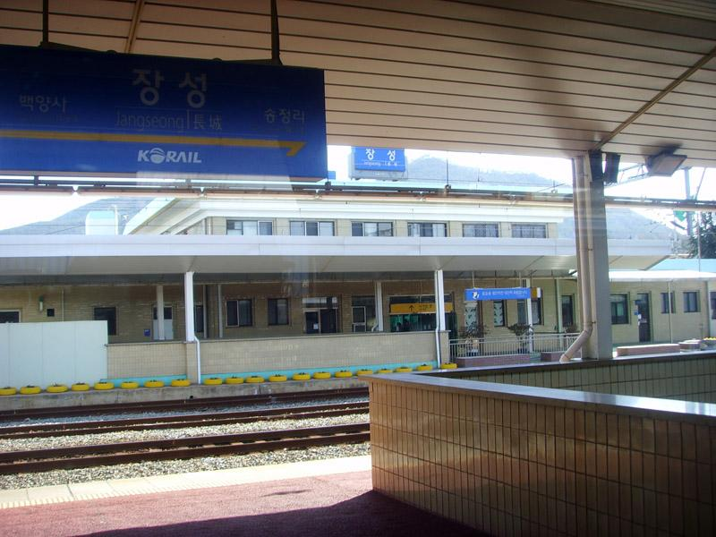 Honam Line Jangseong Station (Yeongcheon-ri, Jangseong-eup, Jangseong-gun, Jeollanam-do, South Korea)